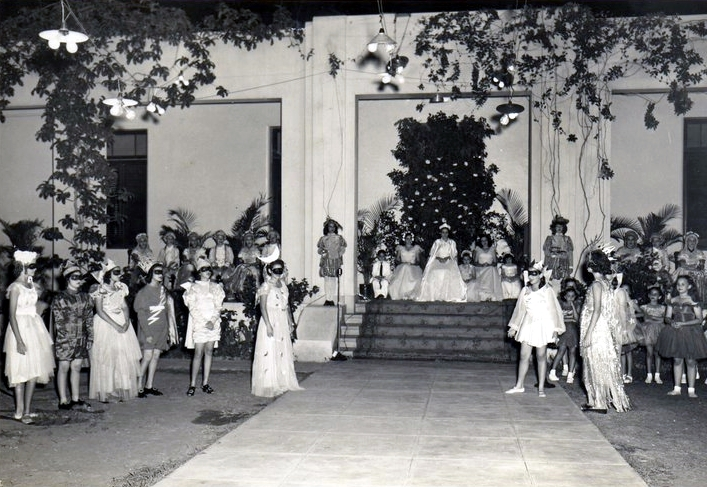 Colegio Buena Vista. Havana, Cuba